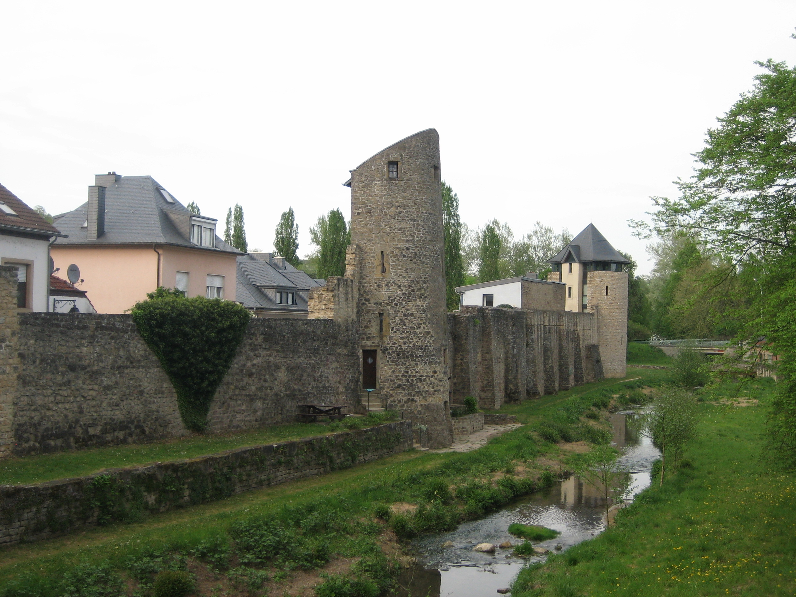 Former city walls and watchtowers converted into houses, in Echternach, Luxembourg. Classified National Monument on 4 March 1936.